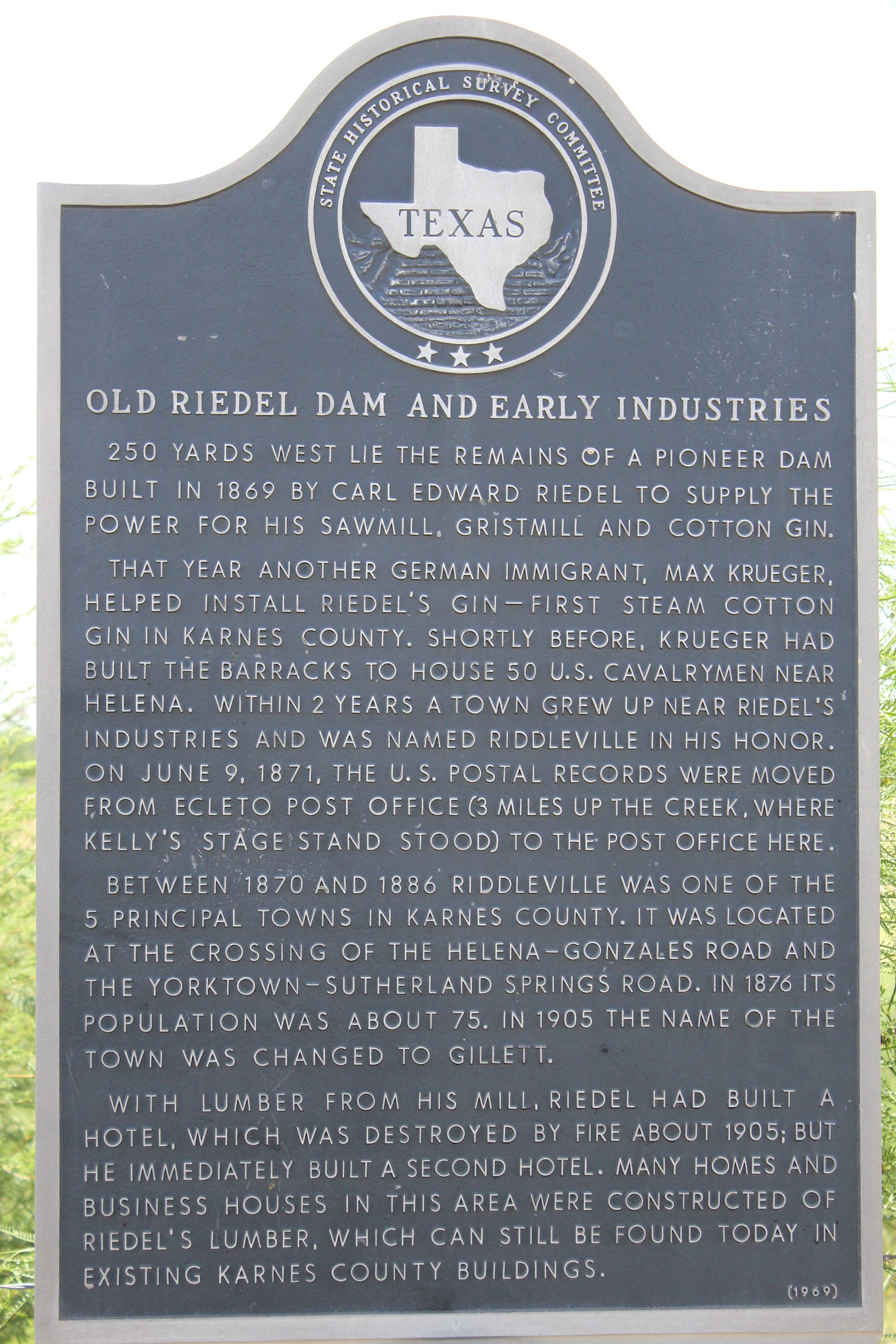 Old Riedel Dam and Early Industries. 250 yards west lie the remains of a pioneer dam built in 1869 by Carl Edward Riedel to supply the power for his sawmill, gristmill and cotton gin. That year another German immigrant, Max Krueger, helped install Riedel's gin-- first steam cotton gin in Karnes County. Shortly before, Krueger had built the barracks to house 50 U.S. Cavalrymen near Helena. Within 2 years a town grew up near Riedel's industries and was named Riddleville in his honor. On June 9, 1871, the U.S. postal records were moved from Ecleto post office (3 miles up the creek, where Kelly's Stage Stand stood) to the post office here. Between 1870 and 1886 Riddleville was one of the 5 principal towns in Karnes County. It was located at the crossing of the Helena-Gonzales Road and the Yorktown-Sutherland Springs Road. In 1876 its population was about 75. In 1905 the name of the town was changed to Gillett. With lumber from his mill, Riedel had built a hotel, which was destroyed by fire about 1905; but he immediately built a second hotel. Many homes and business houses in this area were constructed of Riedel's lumber, which can still be found today in existing Karnes County buildings. (1969) #3793